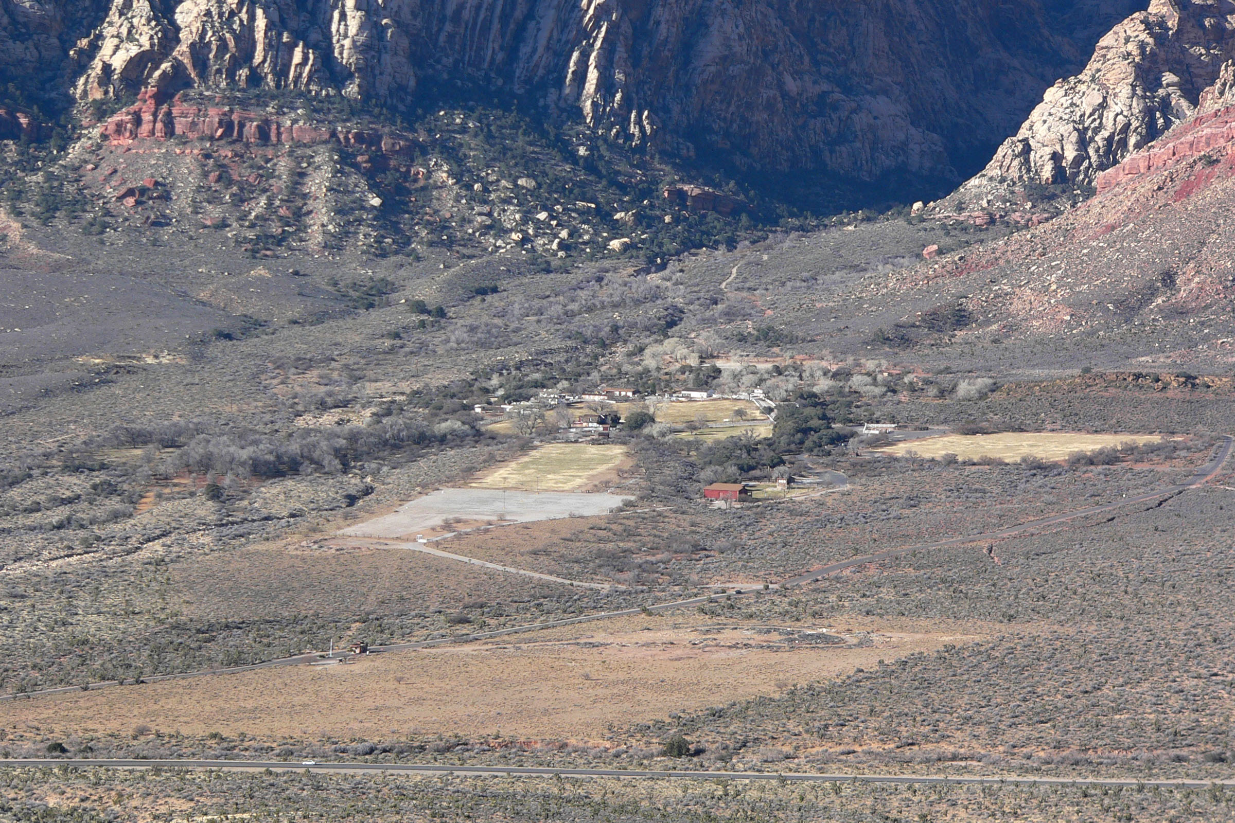 Sandstone Ranch in Spring Mountain Ranch State Park — seen from Blue Diamond Hill in Red Rock Canyon, southern Nevada. A historic district on the National Register of Historic Places in Clark County, Nevada.